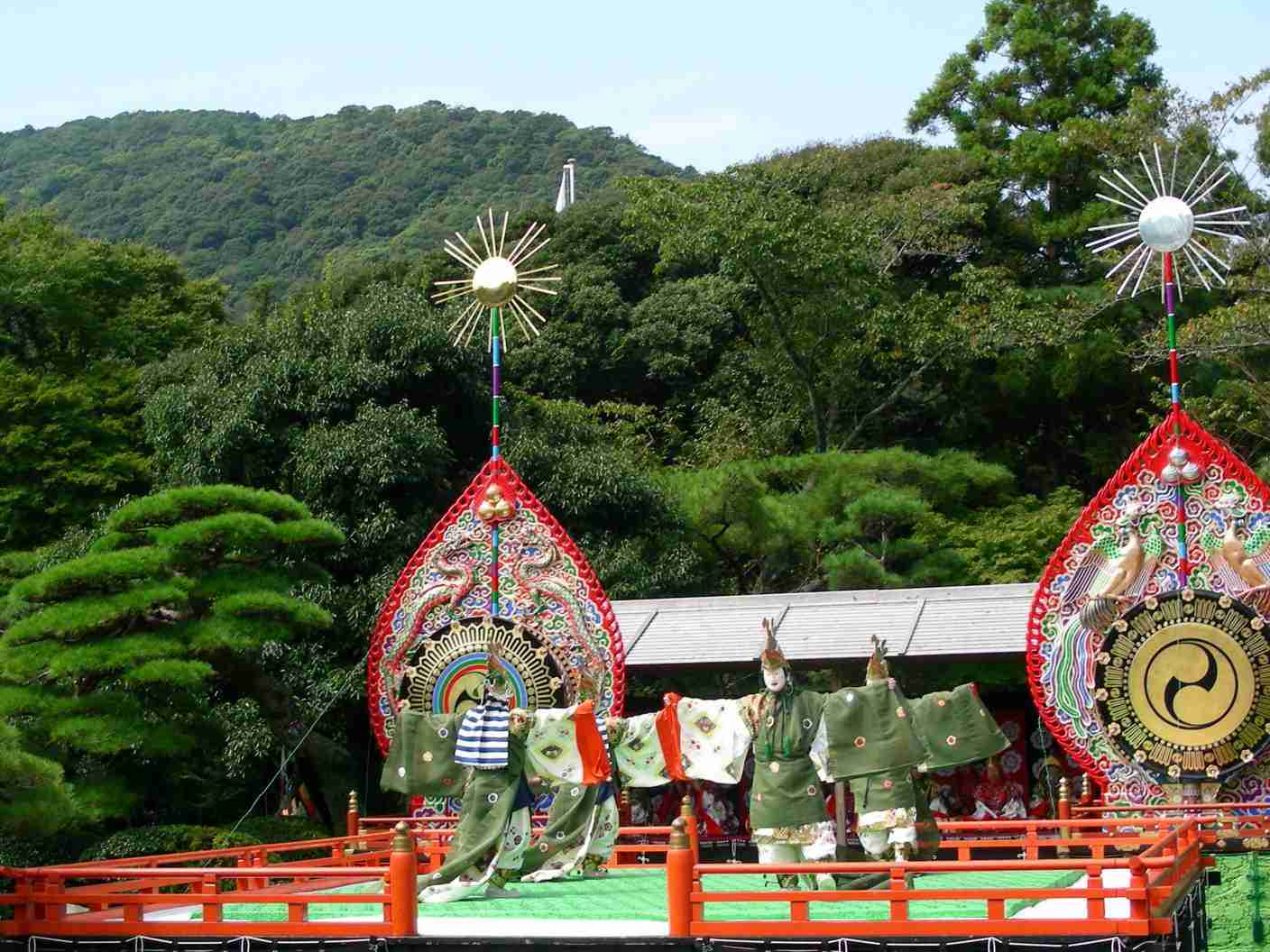 Jingu-Bugaku at Kotaijingu(Naiku), Ise city, Mie Prf., Japan.